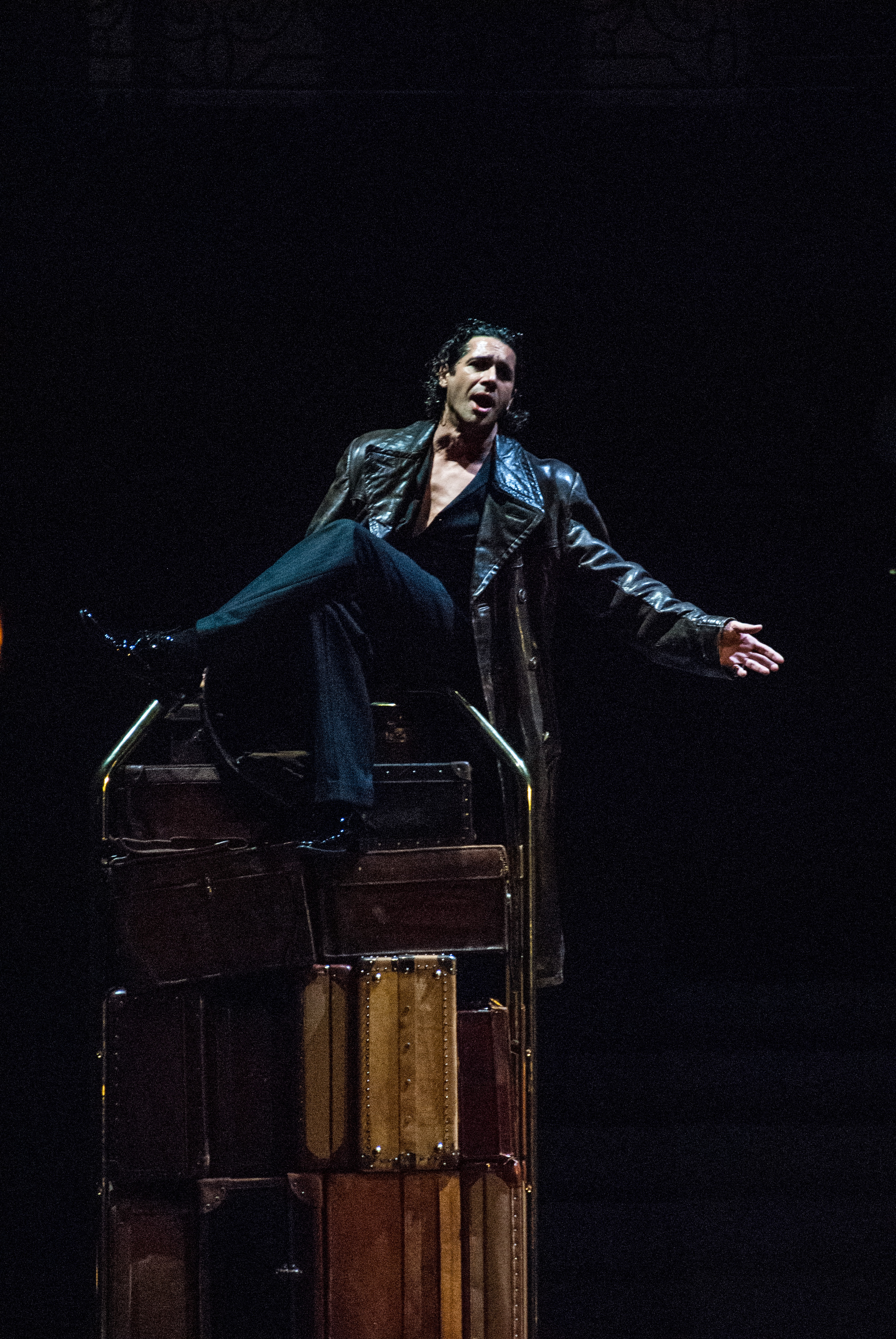 Don Giovanni, Salzburger Festspiele 2014, Ildebrando D’Arcangelo as Don Giovanni